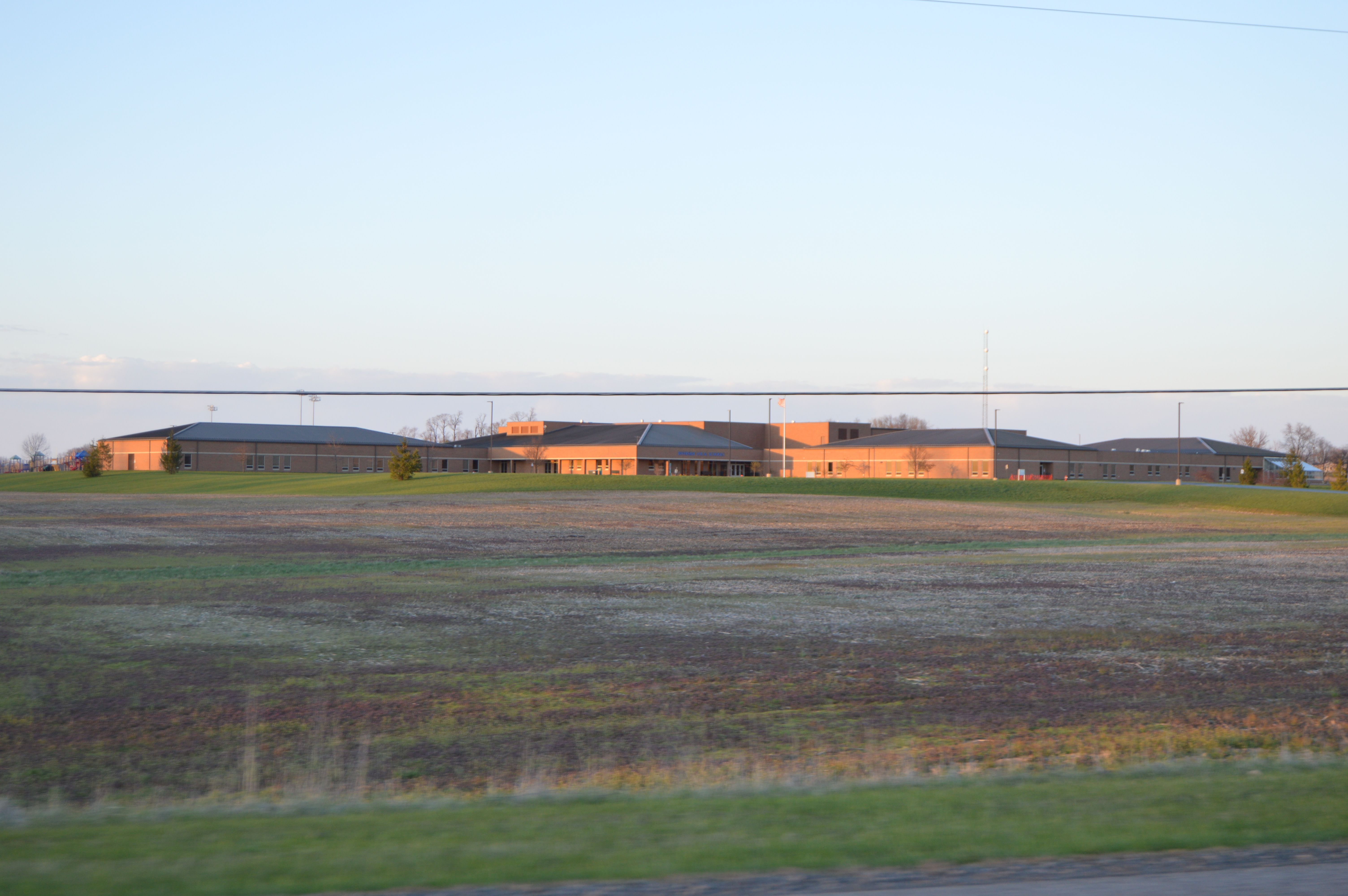 Looking north from State Route 235 toward Riverside High School, and associated elementary and middle schools, in western De Graff, Ohio, United States. It was built in 2002.